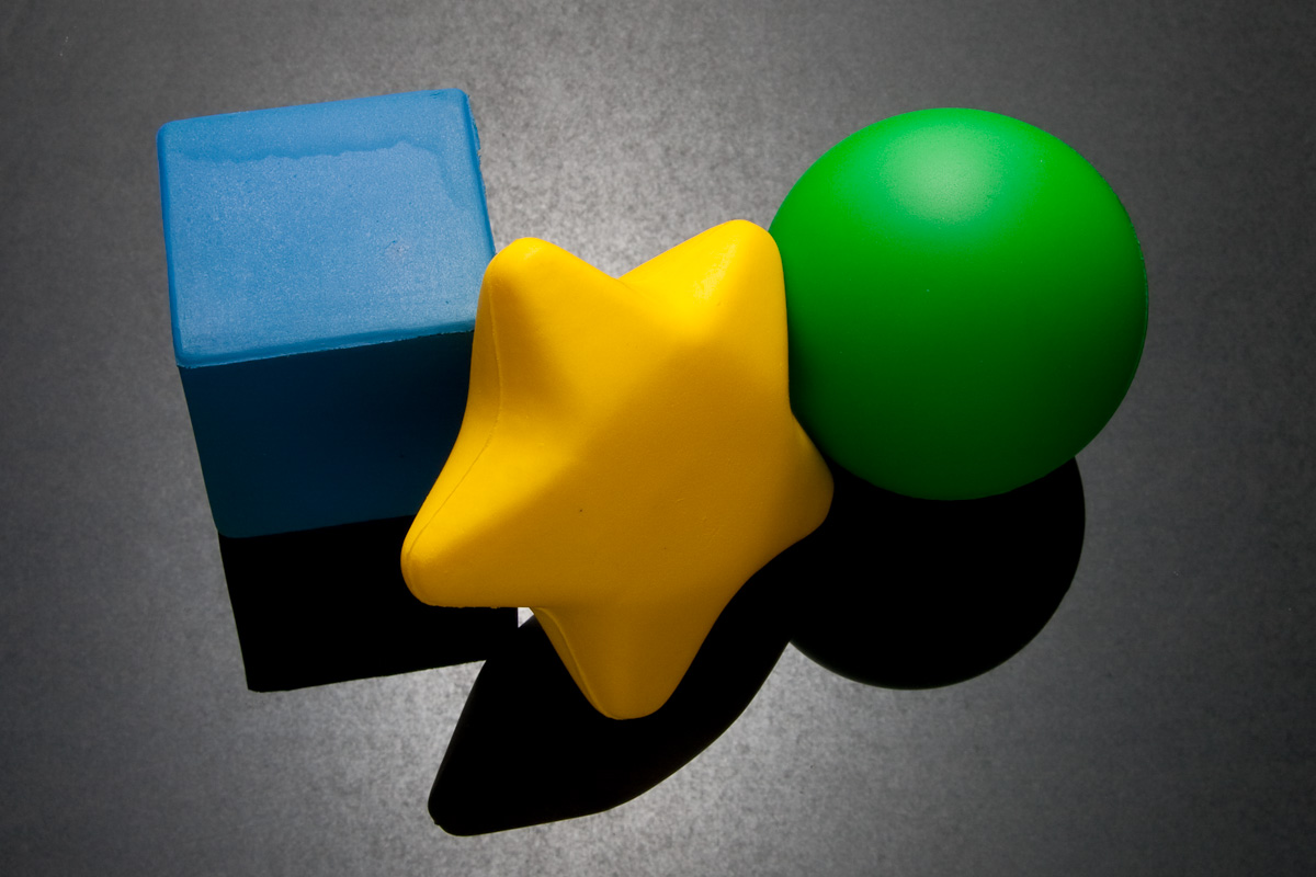 Stress ball shapes. Blue cube, yellow star, green sphere.